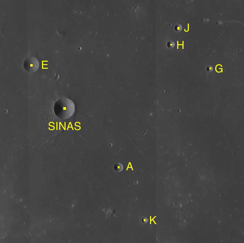 Part of the chart LAC-61 used for the presentation